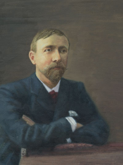 Henri Constant Gabriel Pierné (1863-1937), French composer